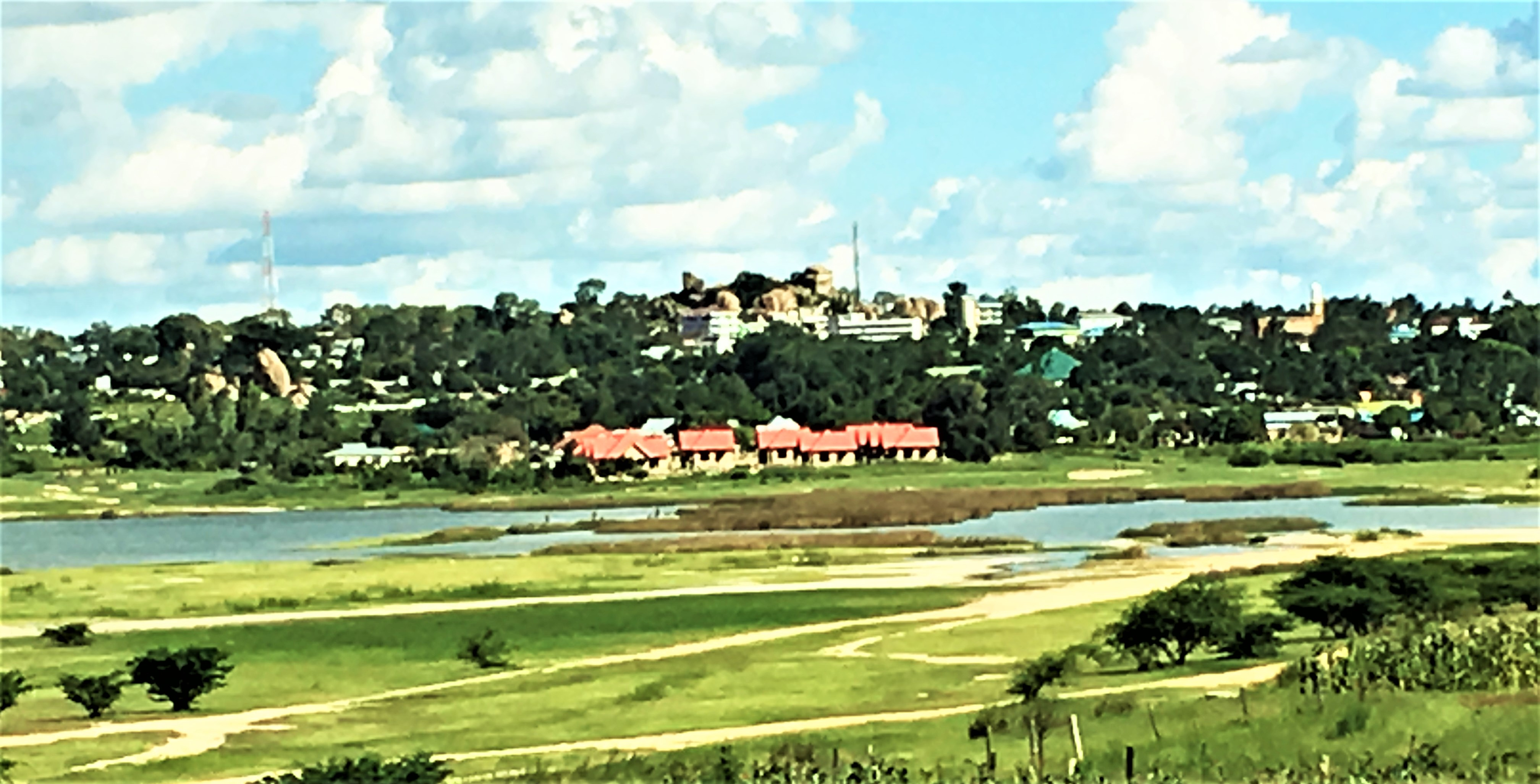 The Singida town by the lakes, Singida region, Tanzania. The photo was taken by Prof. Chen Hualin.